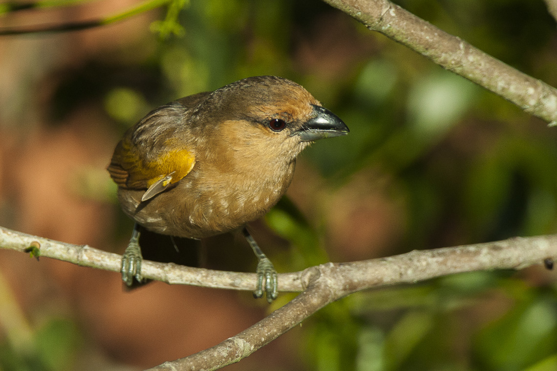 Brown Tanager - Itatiaia - Brazil_MG_0161